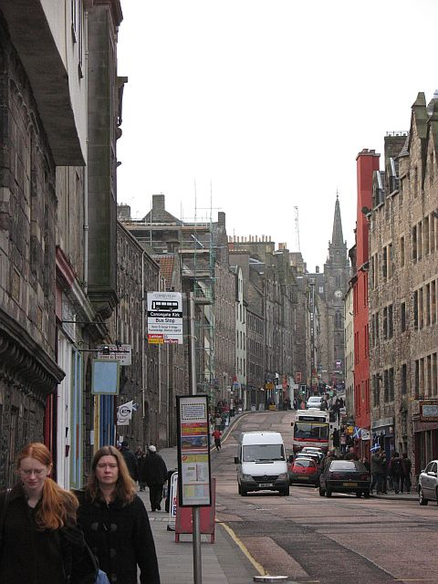 Canongate Looking up the Royal Mile. Can you spot the orienteer?